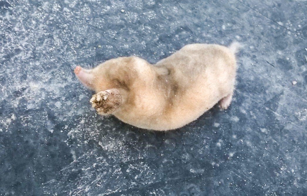 Photo of Albino mole in Russian forest